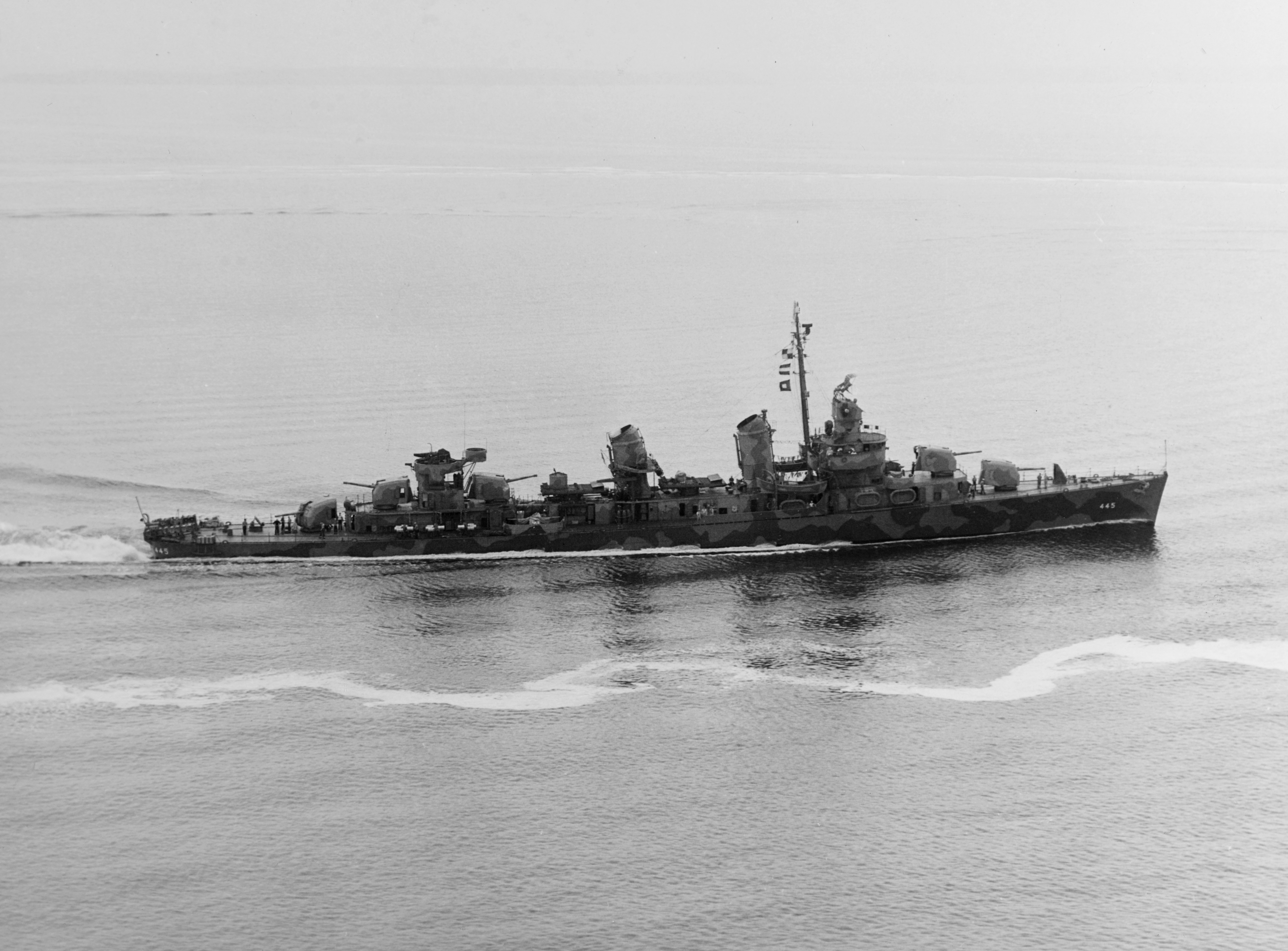 The U.S. Navy destroyer USS Fletcher (DD-445) maneuvering off New York City (USA) on 18 July 1942. She is painted in Camouflage Measure 12 (Modified).